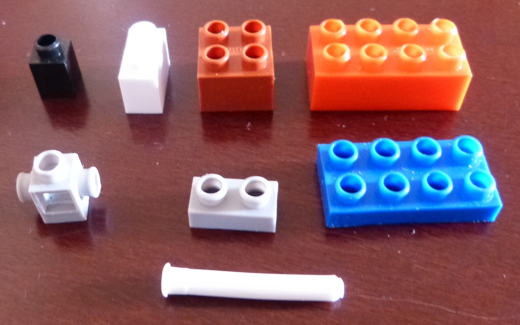 Rasti construction system variuos block sizes